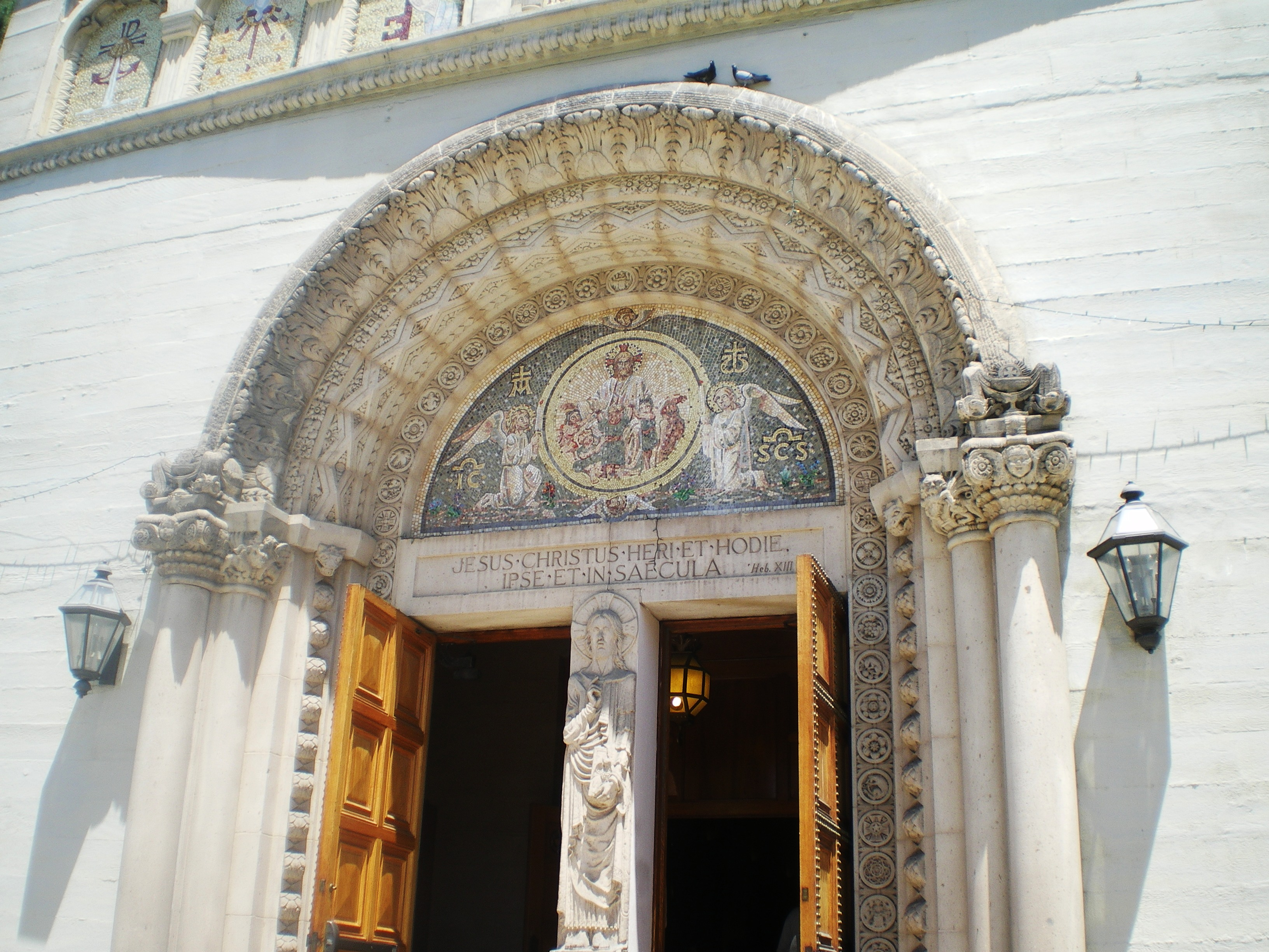 Precious Blood Catholic Church, 435 S. Occidental Blvd., Los Angeles, California